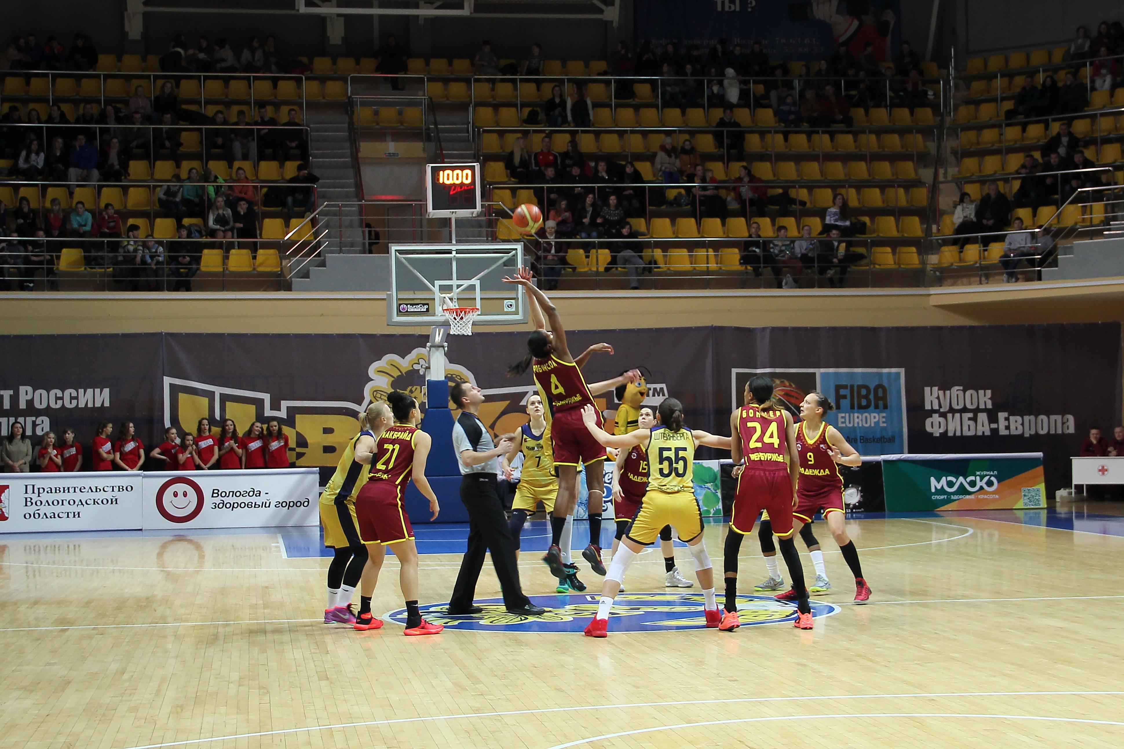 Russia, Vologda, game «Vologda-Chevakata» vs «Nadezhda» (Orenburg)